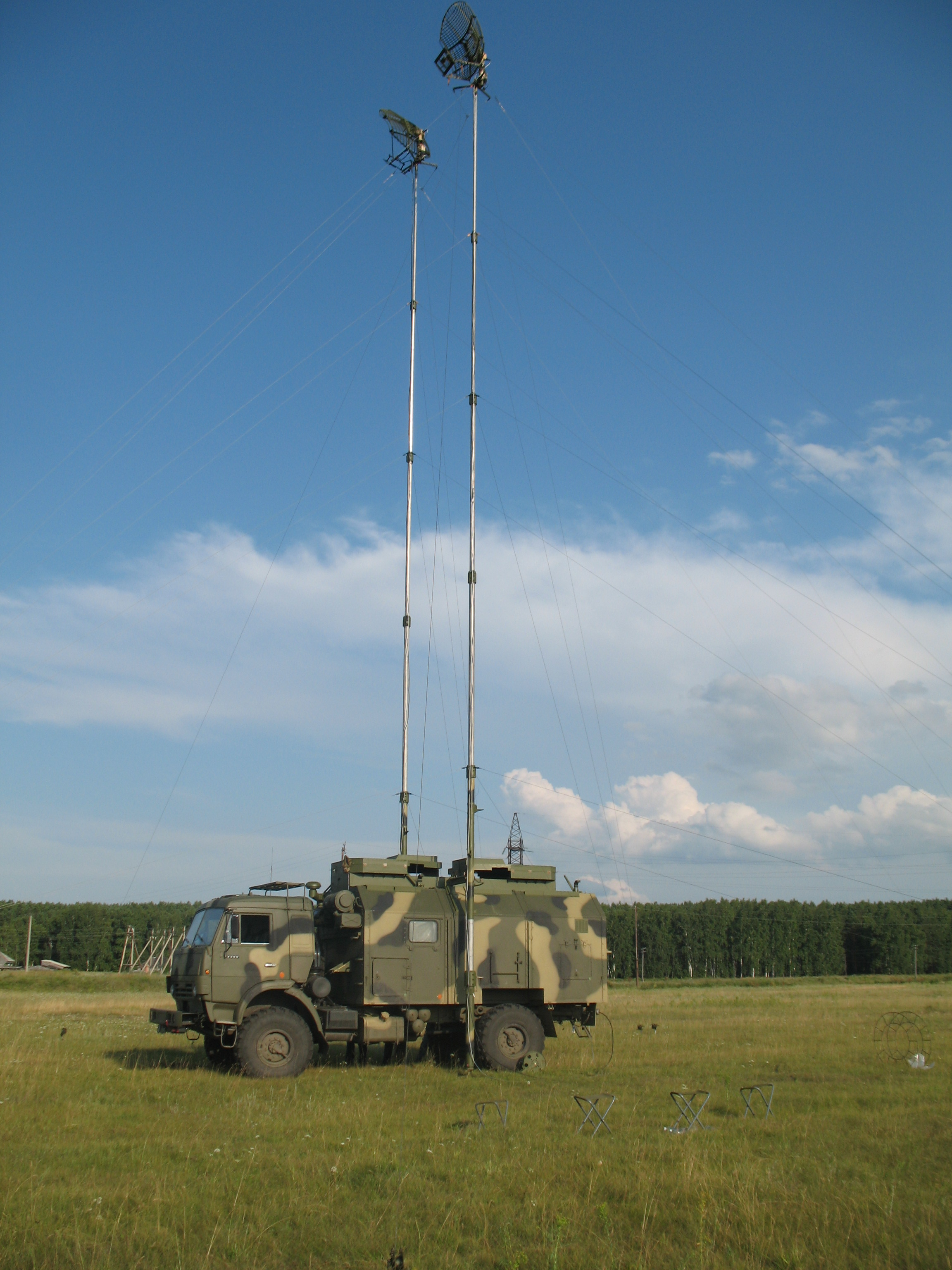 R-419L1.